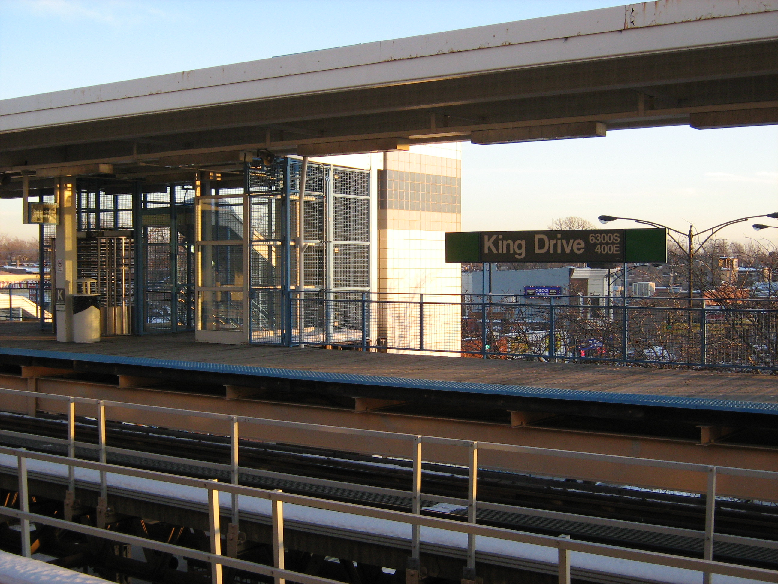 King Drive CTA station